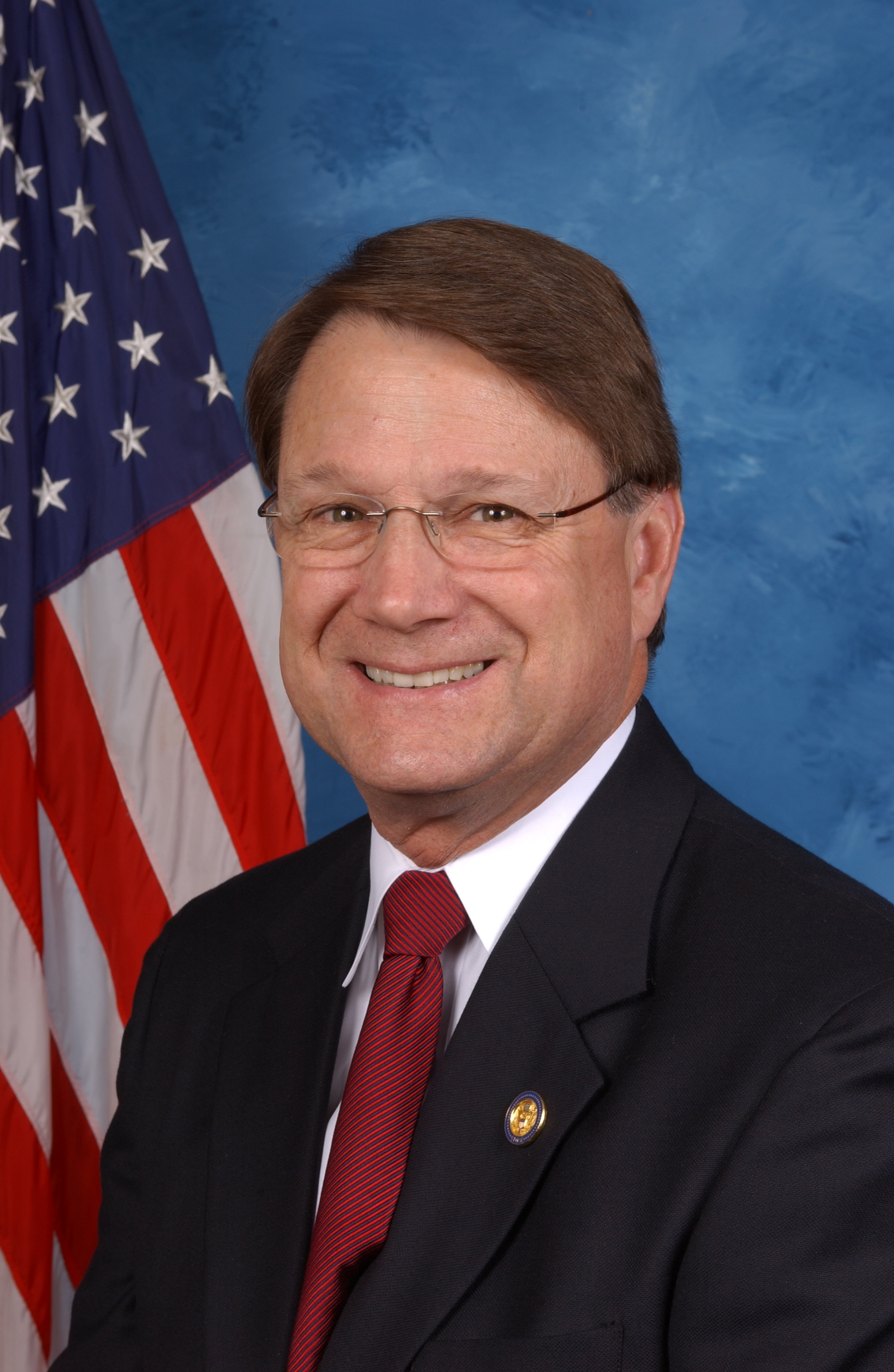 Charlie Melancon, member of the United States House of Representatives.